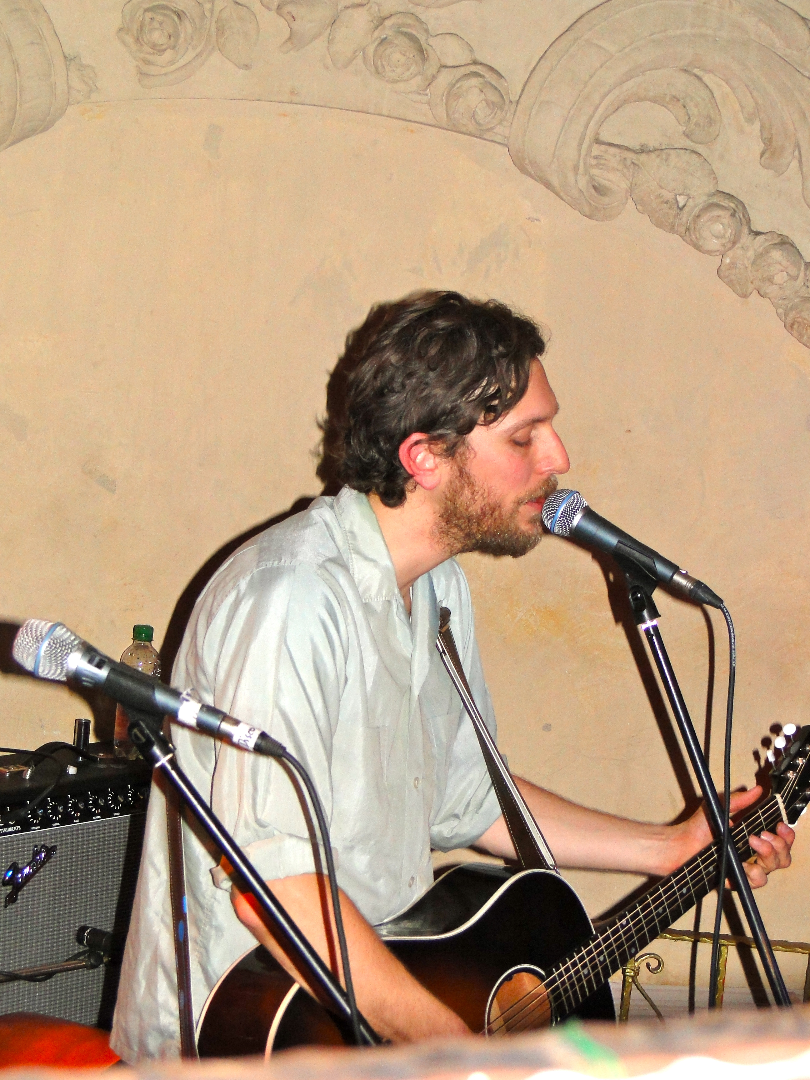 Great Lake Swimmers performing live, Hamburg, Prinzenbar, April 2012